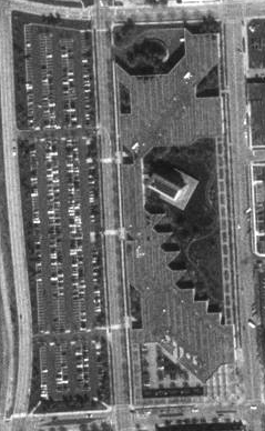 1998 USGS orthophoto of the Cummins Corporate Office Building in Columbus, Indiana, United States.